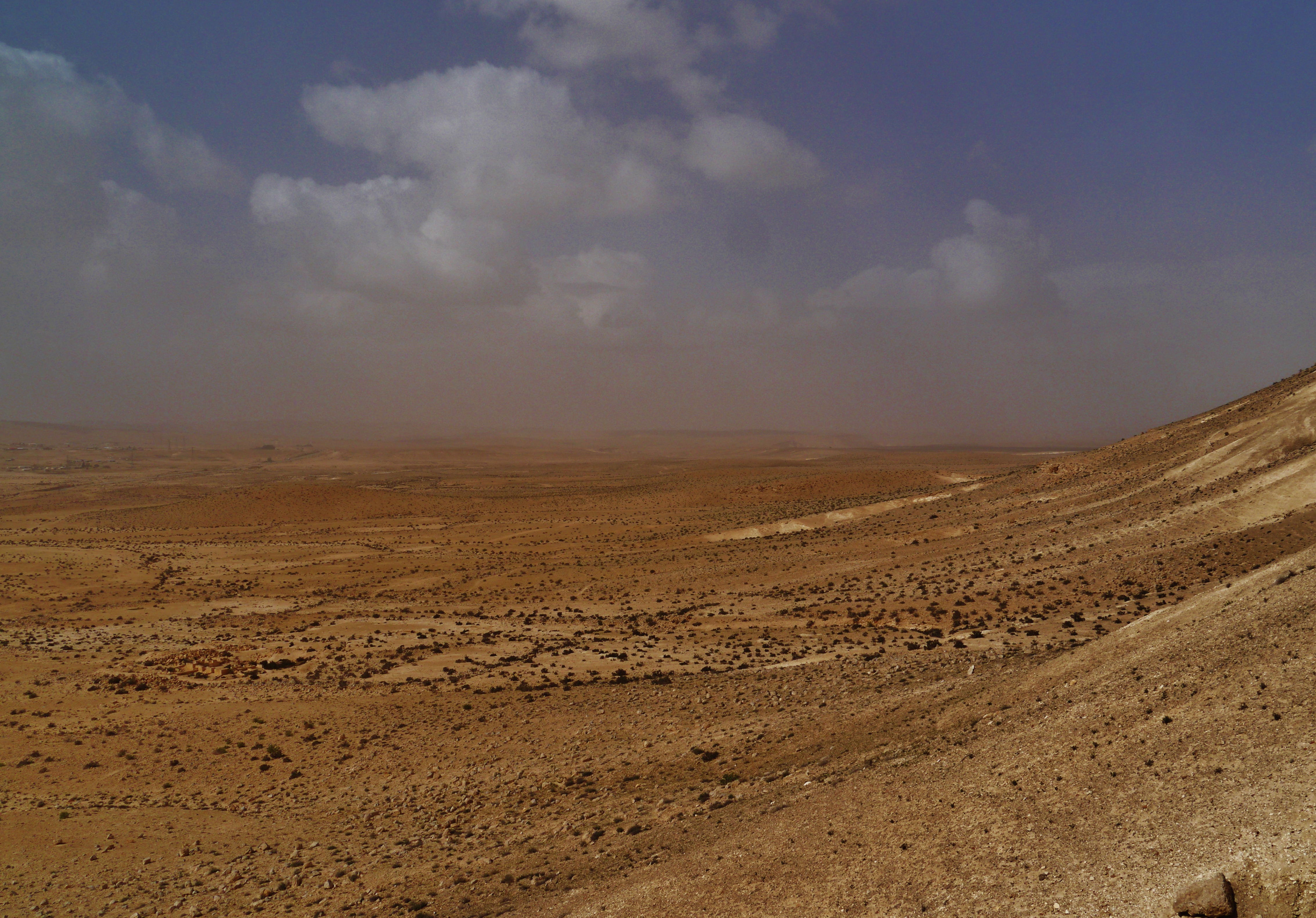 View from Avdat to the environment/Negev Desert, Israel